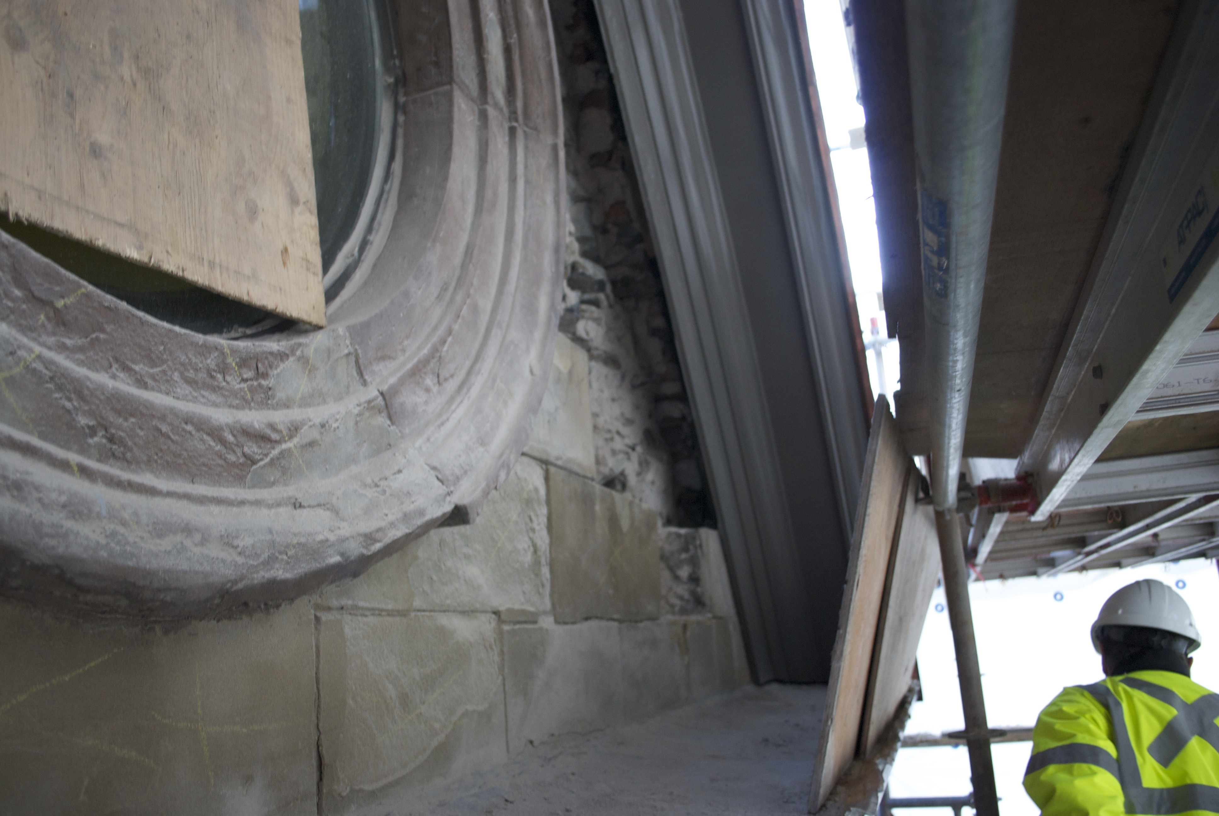 Detail of renovations of Halifax City Hall stonework and exterior envelope upgrade, Halifax NS, 2013